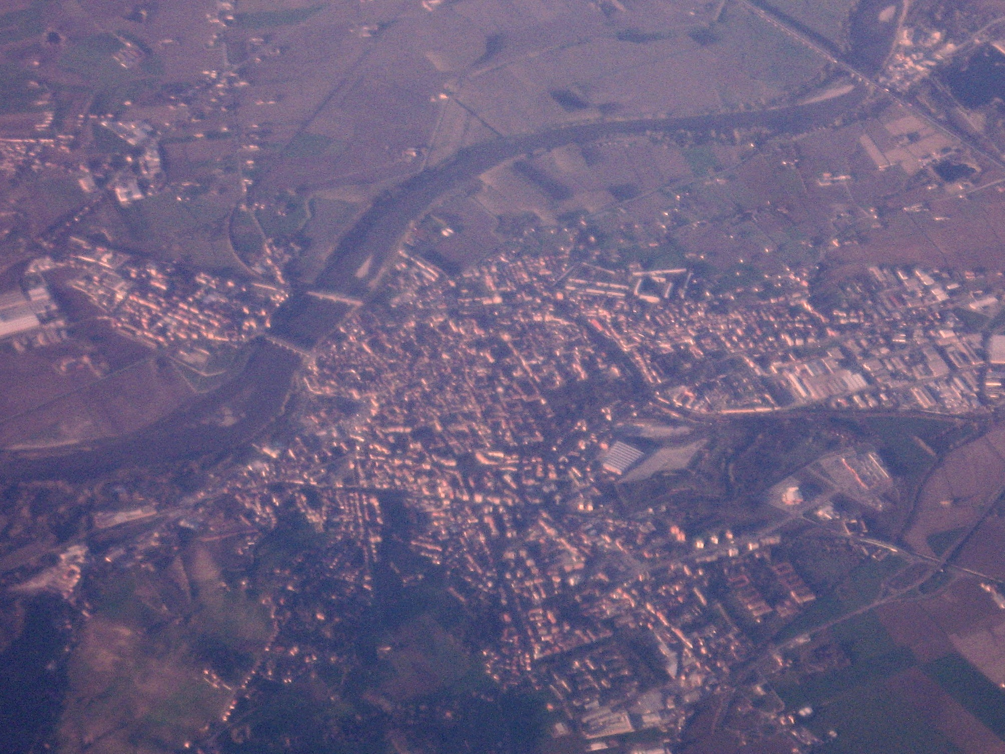 Casale Monferrato